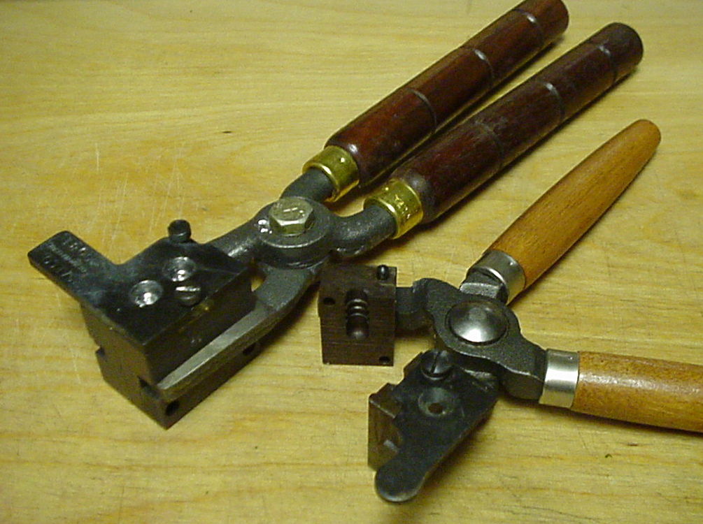 Two bullet molds. The single cavity mold is open and empty. The double cavity mold is closed and contains two bullets.